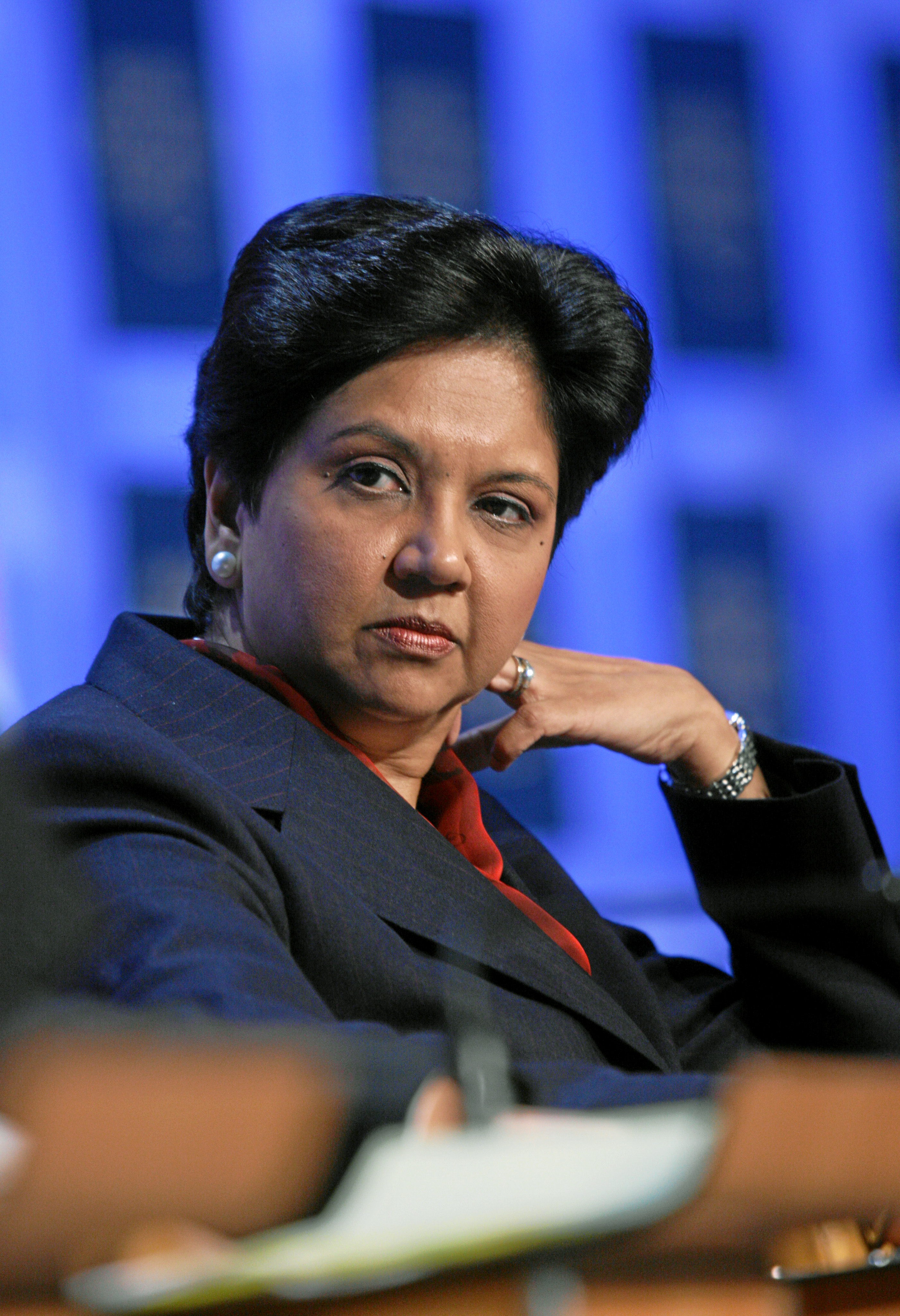 Indra K. Nooyi, Chairman and Chief Executive Officer, PepsiCo ; co-Chair of the World Economic Forum Annual Meeting 2008, captured during the session 'Corporate Global Citizenship in the 21st Century' at the Annual Meeting 2008 of the World Economic Forum in Davos, Switzerland, January 25, 2008.